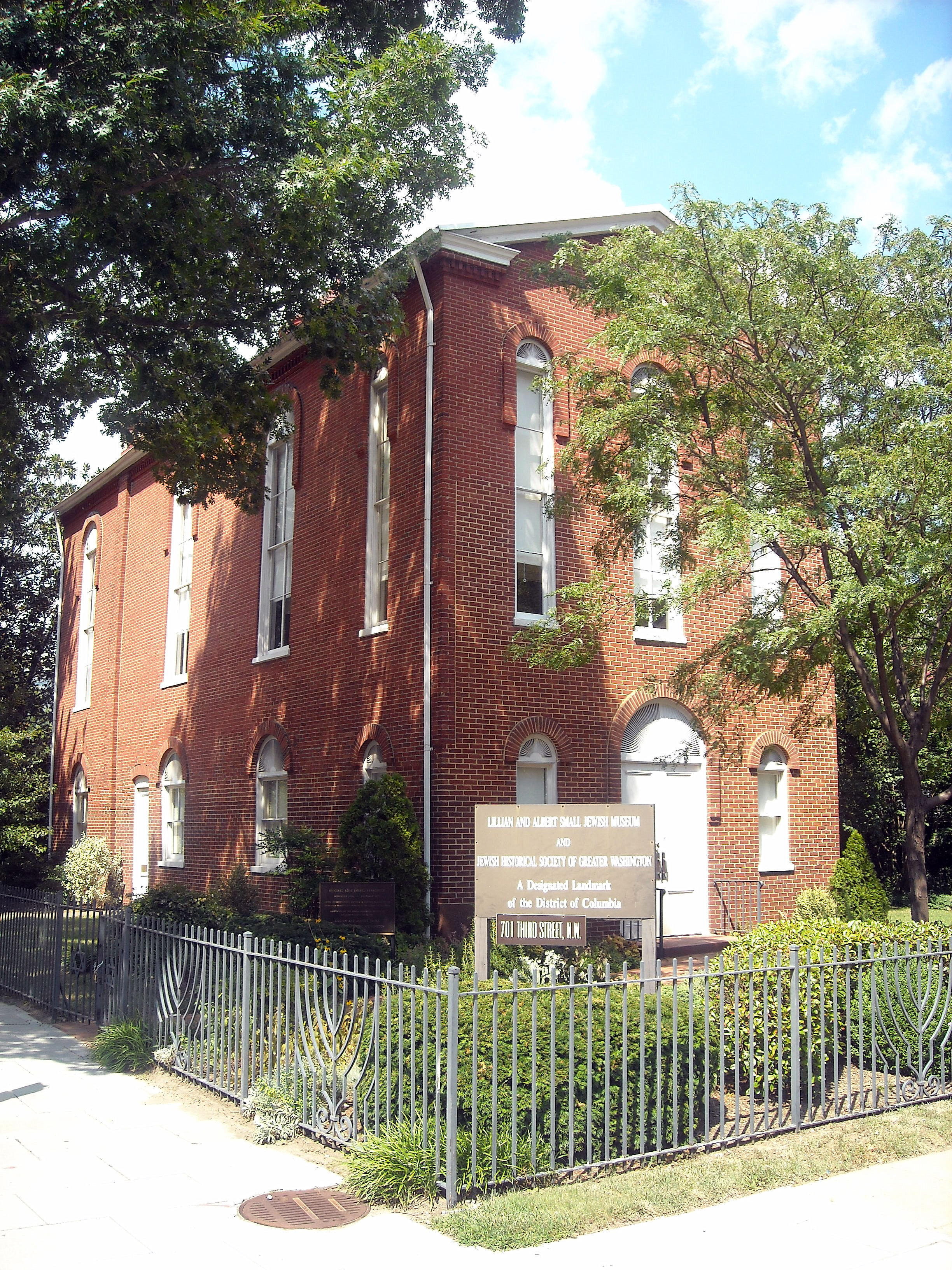 The original Adas Israel Synagogue at 3rd and G Streets, NW in Washington, D.C. The building now serves as a Jewish museum and is listed on the National Register of Historic Places.